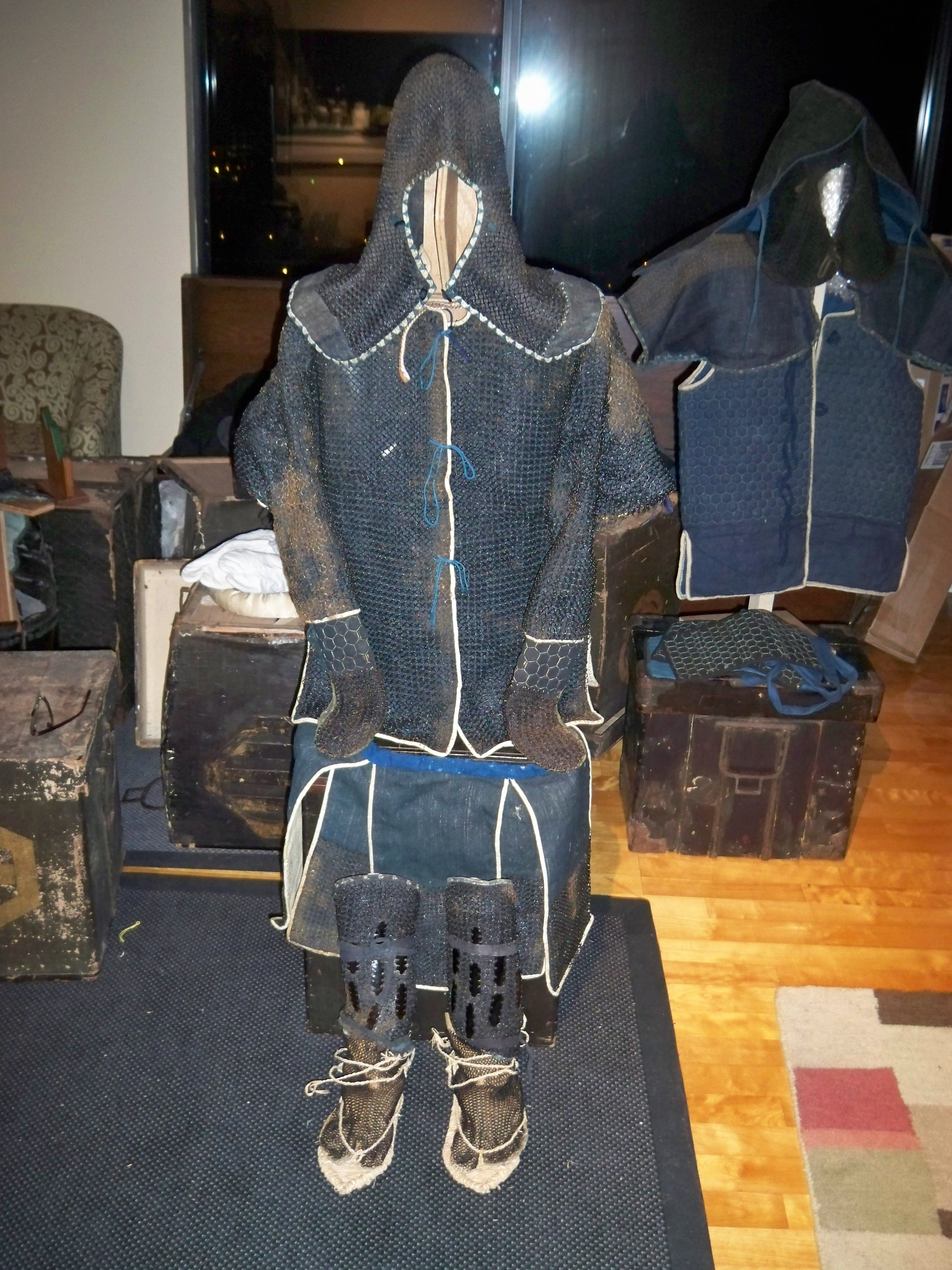 Full set of Japanese(samurai)Edo period 1800s chain mail(kusari) armor.